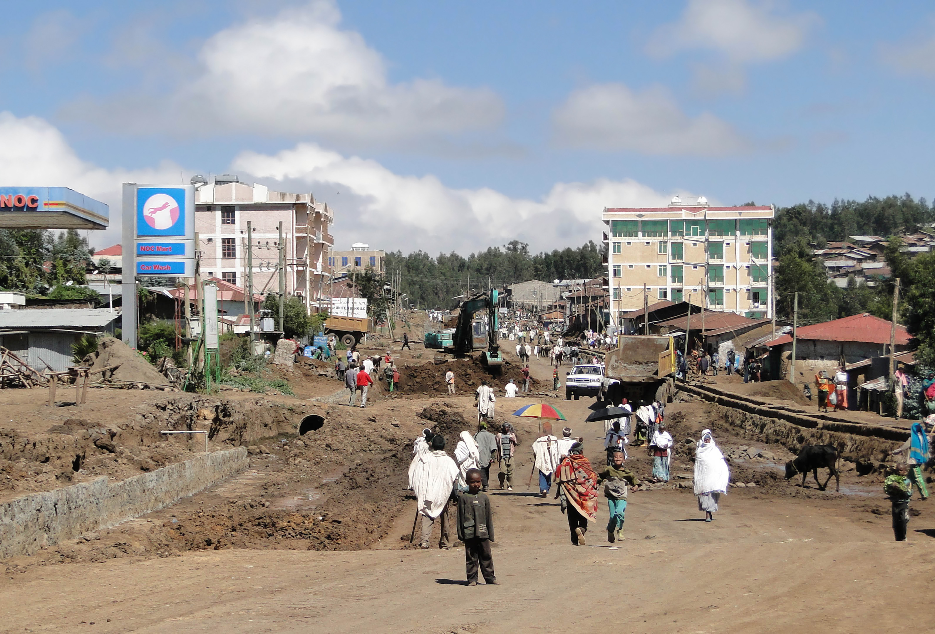 Town of Debarq in Ethiopia